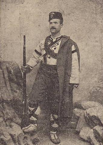 Portrait of Anto Kolev from Dragalevtsi, Bulgaria, member of SMAC